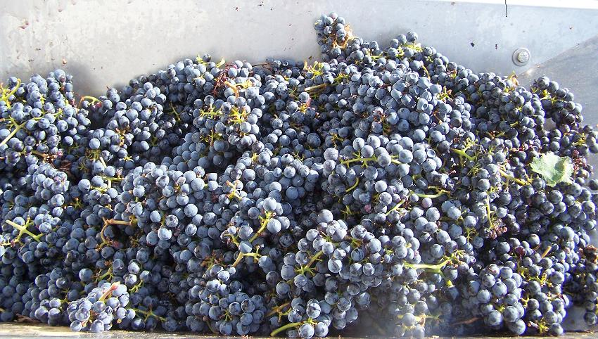 Image of harvested grapes preparing to be destemmed Photo taken at Mountain Homebrew in Kirkland, WA on October 14th, 2007.